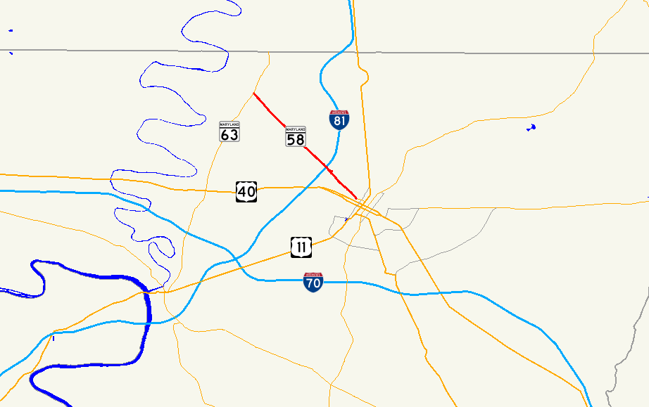 Map of Maryland Route 58